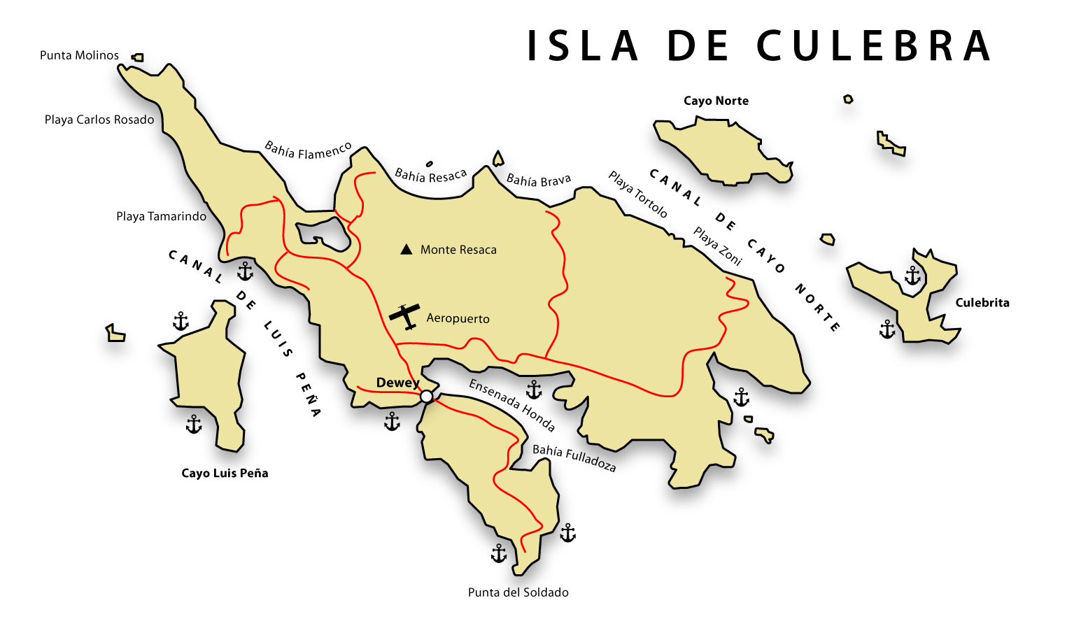 Non political map of Culebra Island